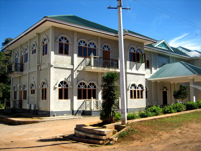 Tatmadaw (Army) generals' villas overlooking a golf course, Kalaw, Shan State